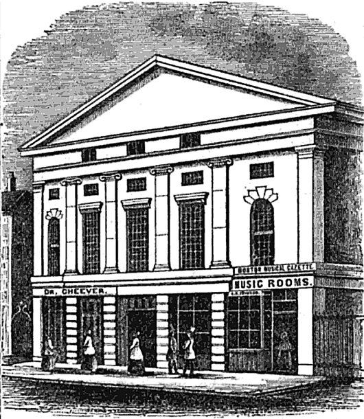 engraved view of first Tremont Temple, Tremont Street, Boston, Massachusetts, ca. 1851